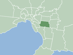 Map of Melbourne's Local Government Areas, highlighting City of Monash